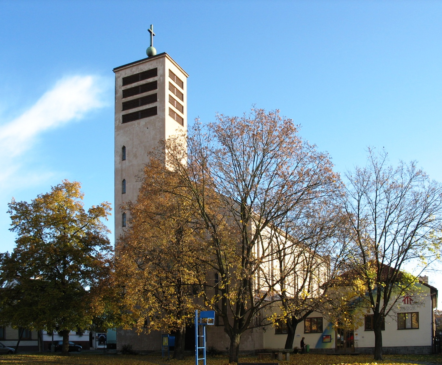 St. Adabertus church in Čtyři Dvory, part of České Budějovice, Czech Republic